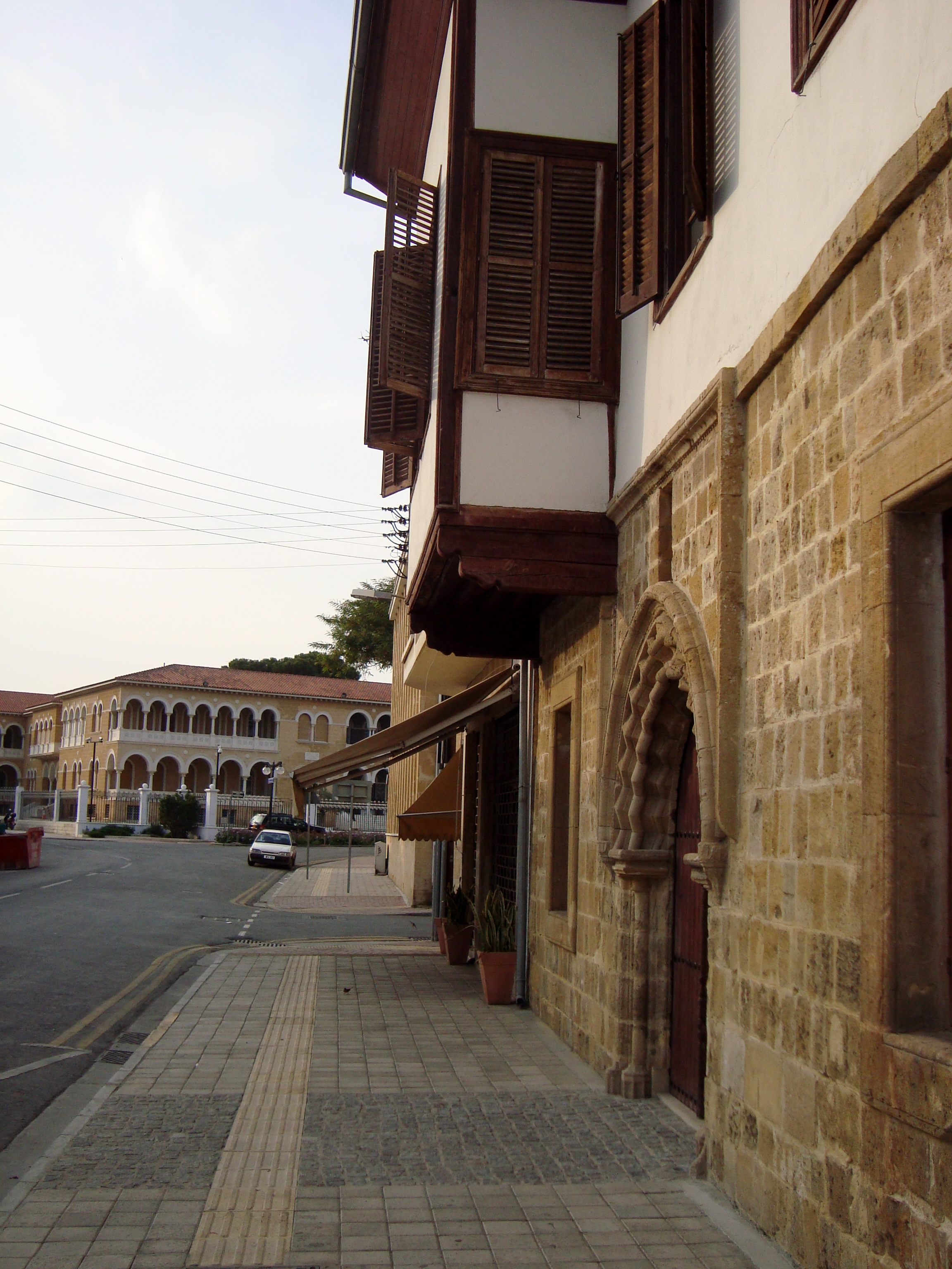 Ottoman 15th century house in old Nicosia Republic of Cyprus